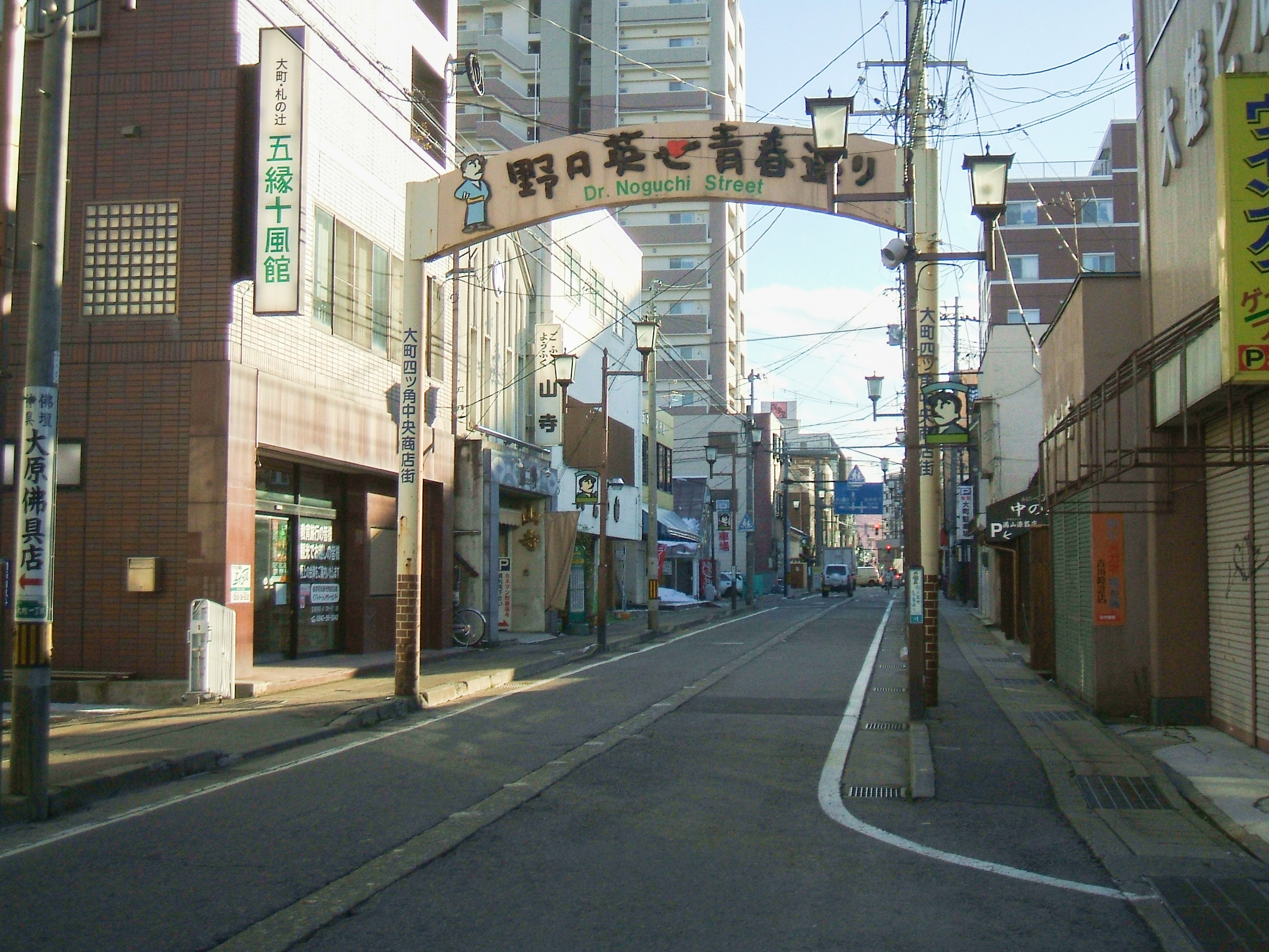 This is a landscape of "Noguchi-Hideyo-Seisyundori" street. It was taken at Aizuwakamatsu, Fukushima.